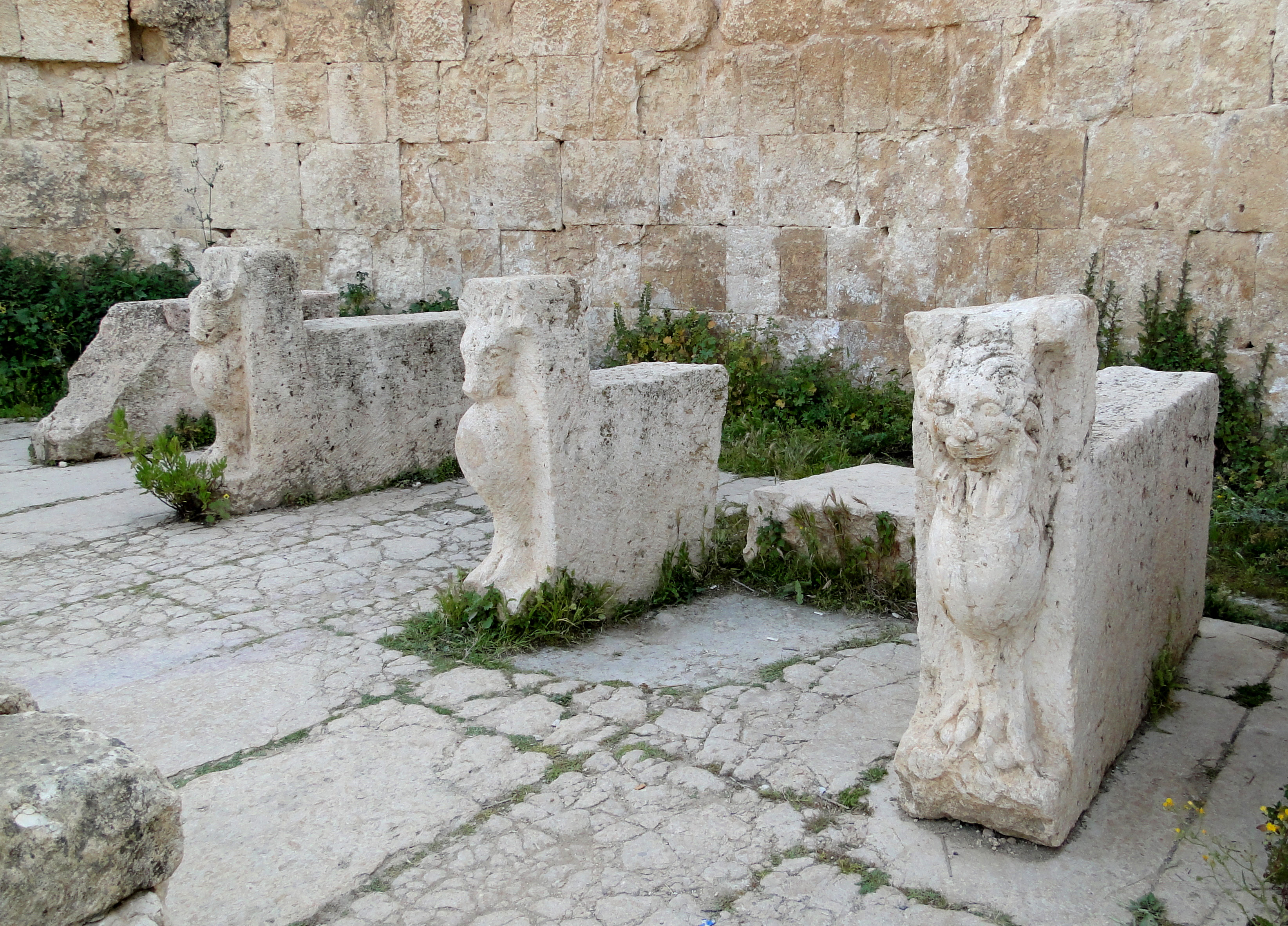 Sculptures of animals using to support tables in the macellum (market) of Jerash, Jordan